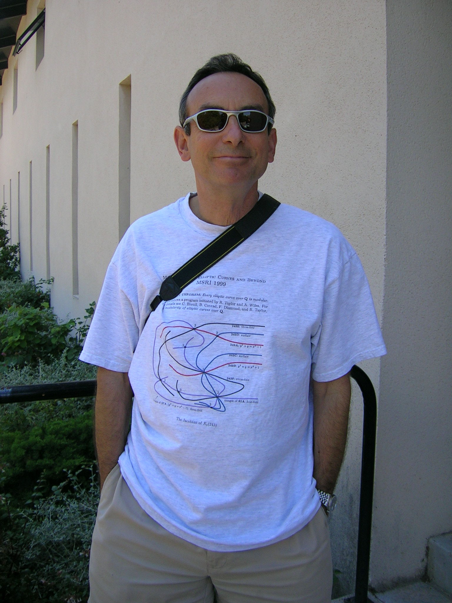 Photo of Kenneth A. Ribet taken the July 19, 2007 in the Summer School on Serre's Modularity Conjecture in Luminy